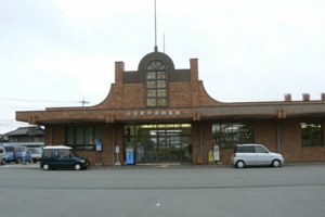 Daian Station